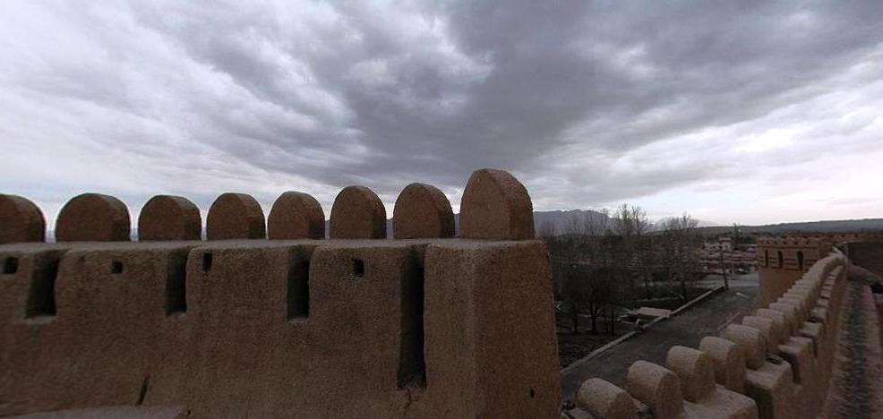 Citadel walls with merlons of medieval Rayen Castle (4th-century CE) — in Kerman. Adobe brick castle ruins and mountains in Kerman Province, southeastern Iran.